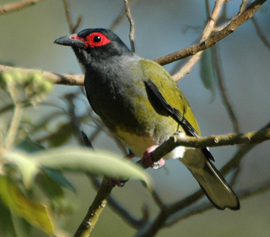 Green Figbird (Sphecotheres vieilloti) Samsonvale Cemetery, SE Queensland, Australia